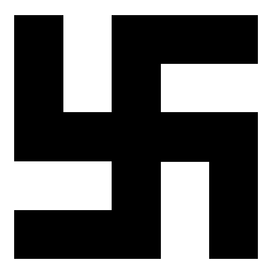 Manji/swastika (NOT Nazi swastika, a correct, formal Nazi swastika is at a 45° angle)